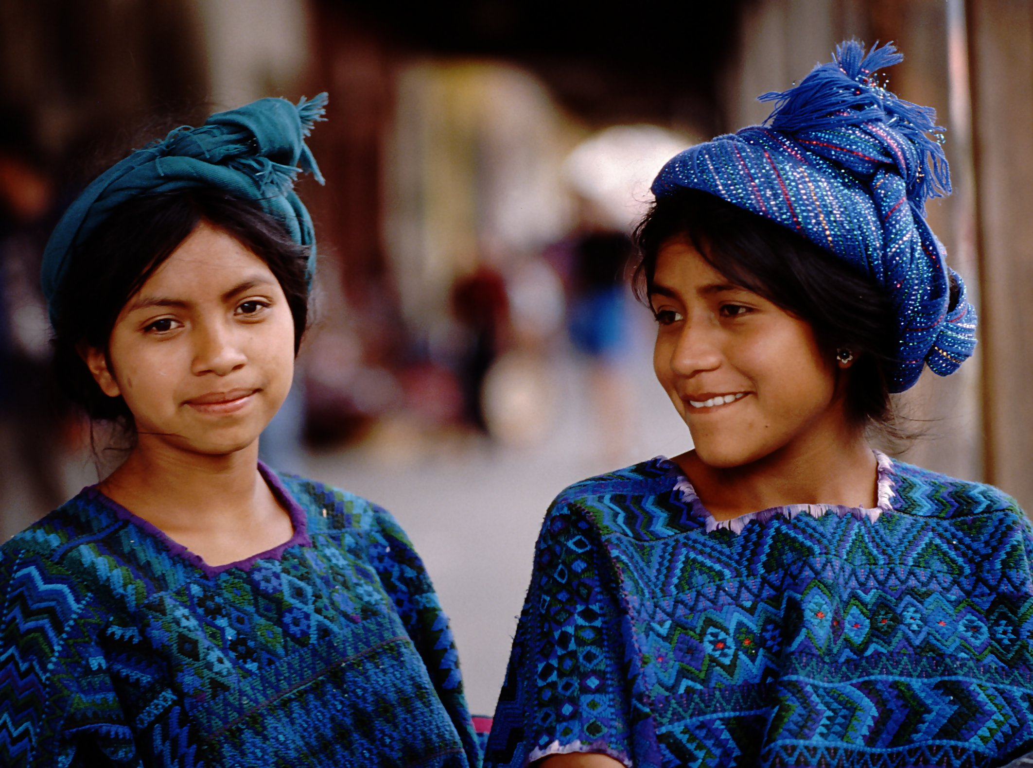 Young women on the marketplace of Chichicastenango, Guatemala 1996